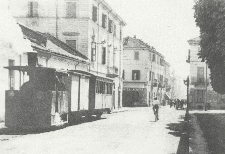 Santhià, Porta Aosta with tramway